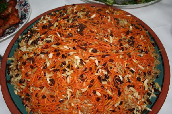 Qabuli palao, Rice with carrots and raisins, cooked with lamb shank, a specialty dish in Afghanistan.